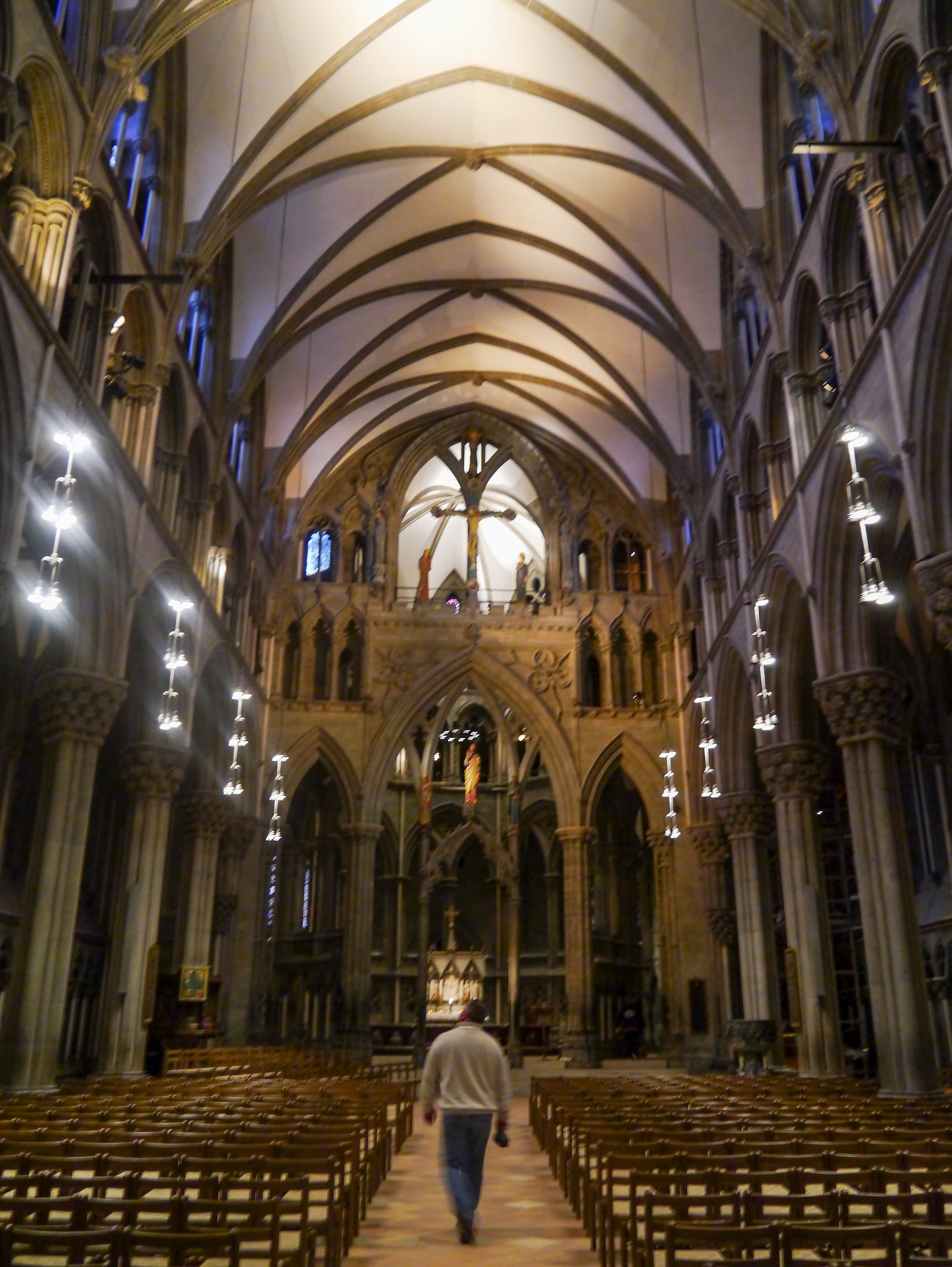 Choir of Nidaros Cathedral, Trondheim, Sör-Tröndelag County, Central Norway